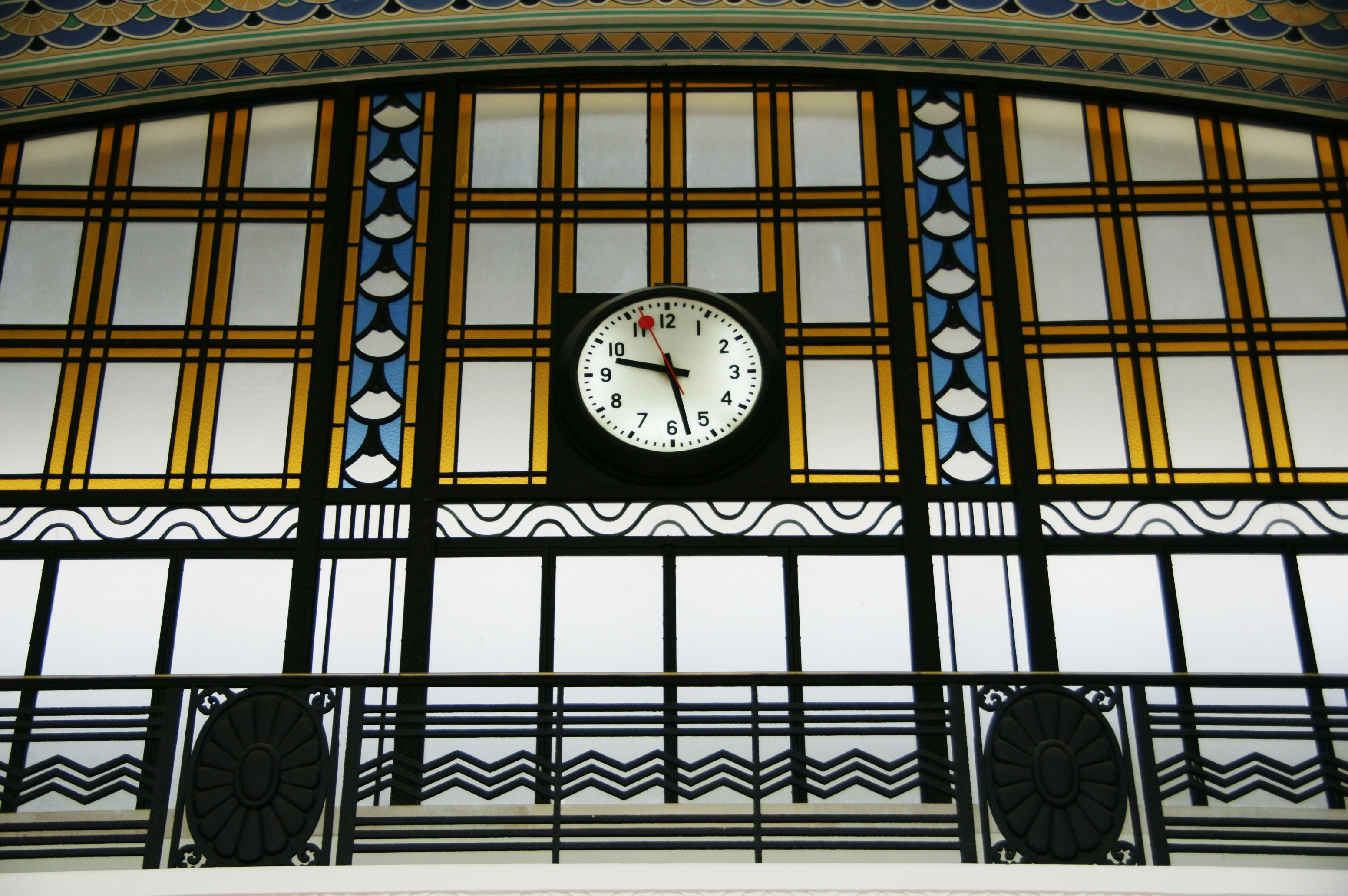 This file was uploaded for Wiki Loves Monuments in Portugal with the unique identifier 330869.